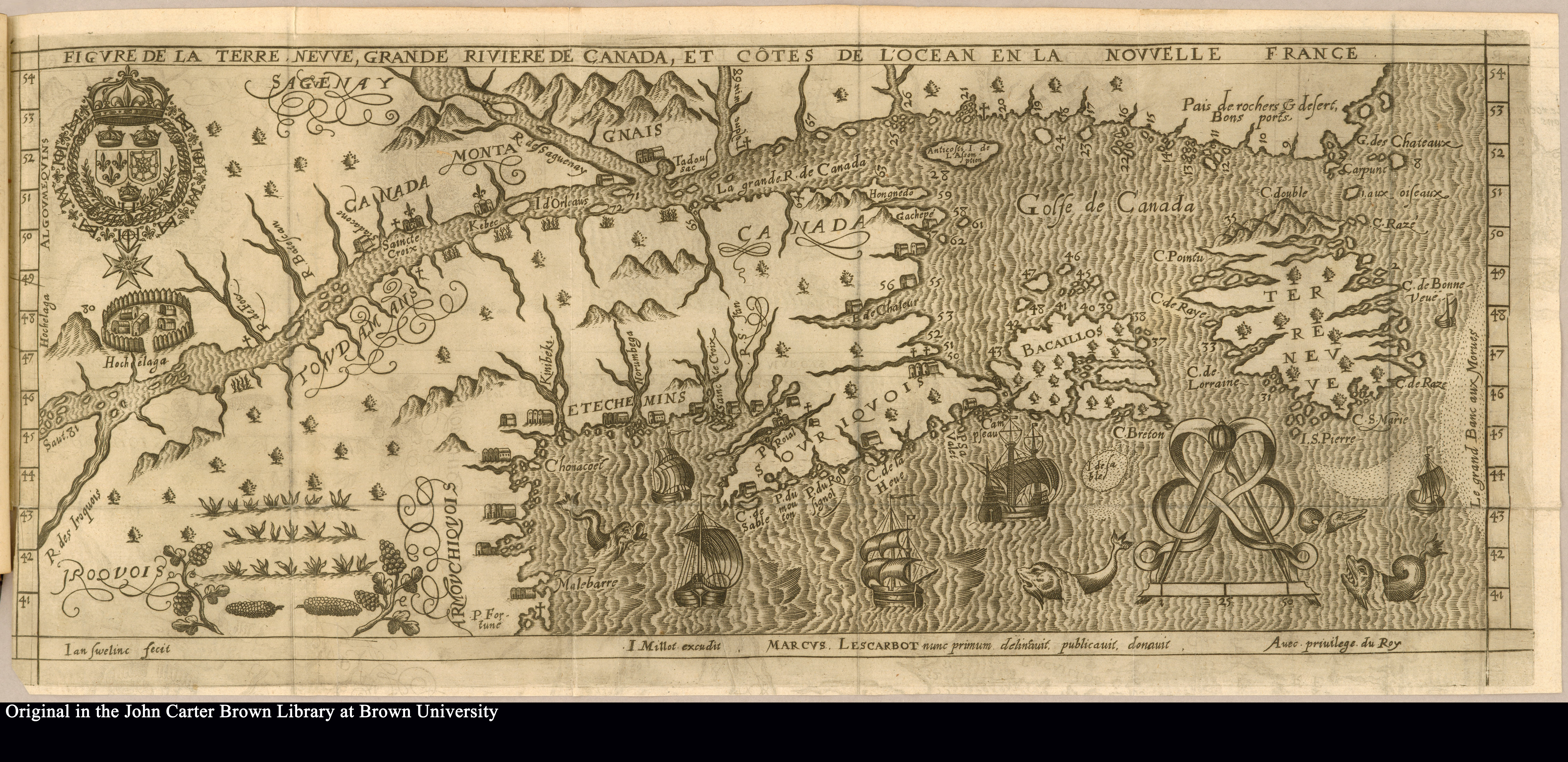 Source title: Histoire de la Nouvelle France contenant les navigations, découvertes, & habitations faites pare les François és Indes Occidentales & Nouvelle-France ... avec les tables & figures d'icelle Source place: A Paris: Chez Iean Milot, tenant sa boutique sur les degrez de la grand'salle du Palais., M.DC.IX Cartobibliographic notes: First detailed map of Canada. The New England coastline on this map closely follows Champlain's manuscript map, now at the Library of Congress. References: Burden, P.D. Mapping of North America, 157; Cumming, W.P. Discovery of North America, fig. 353. Geographic Area: North America Historical notes: Lescarbot had taken part in Pierre du Gua de Monts' expedition to Acadia in 1603-1607, along with Samuel de Champlain.